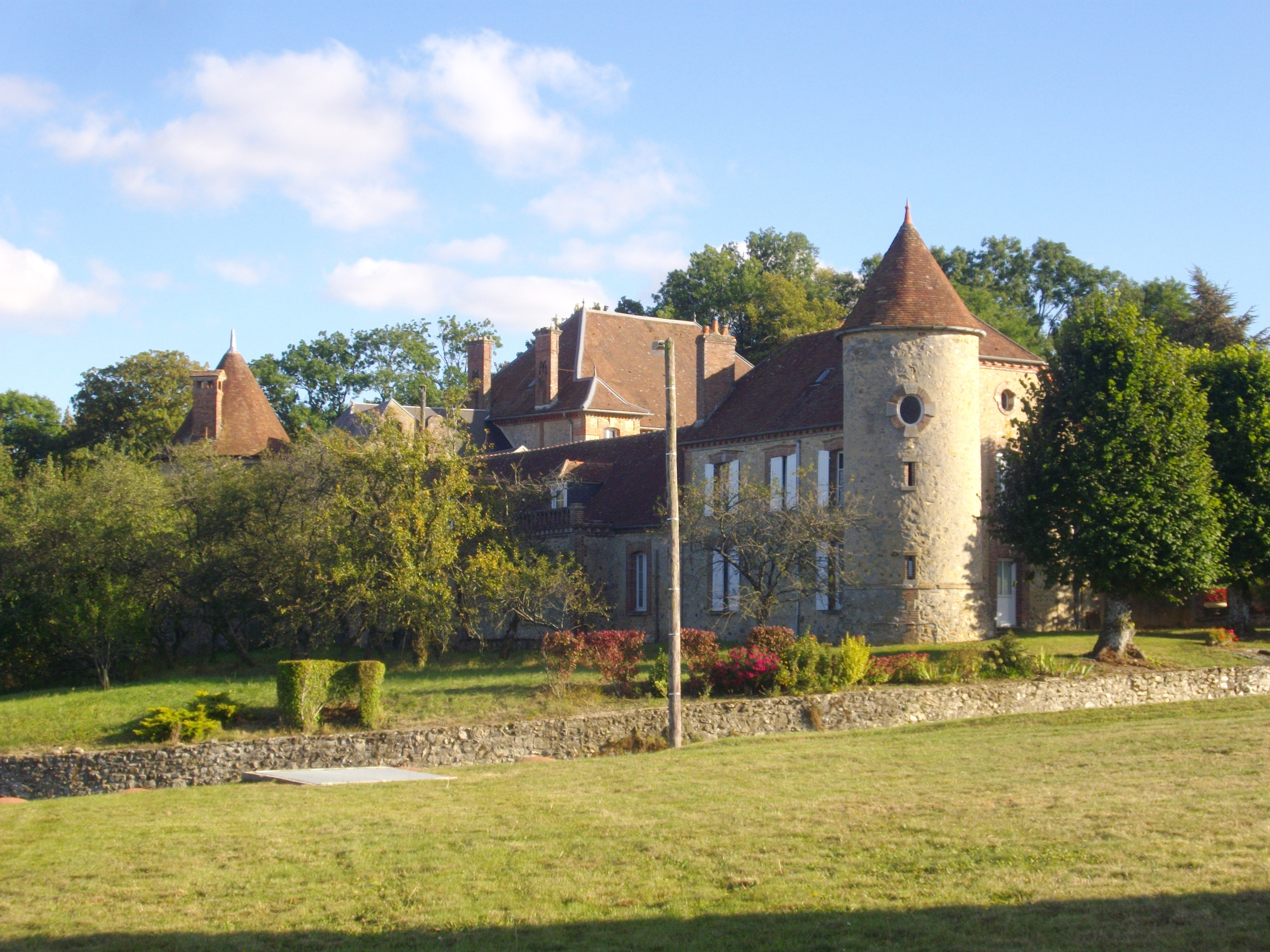 Mondement castle, in Mondement-Montgivroux (Marne, France)